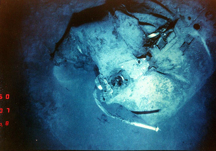 Photo #: NH 97222-KN Distorted hull section of sunken USS Scorpion, 1986 Wreck of USS Scorpion (SSN-589) "400 miles Southwest of the Azores: Forward compartment of USS Scorpion where it rests on the ocean floor in more than 10,000 feet of water. ... A portion of a periscope protrudes from the hull; its shadow is visible on the hull." Quoted from the original photo caption, which is one of five views, dated August 1986, taken by Woods Hole Oceanographic Institute. This view looks down at the after end of the wreck's bow section with the port side toward the top. It shows massive structural distortion at and forward of the area where the hull separated. Some of this distortion is also visible (very faintly) in Photo #s NH 97220-KN and USN 1136658, which are other views of the wreck's bow section. Info:USS Scorpion (SSN-589) Official U.S. Navy Photograph, from the collections of the Naval Historical Center.